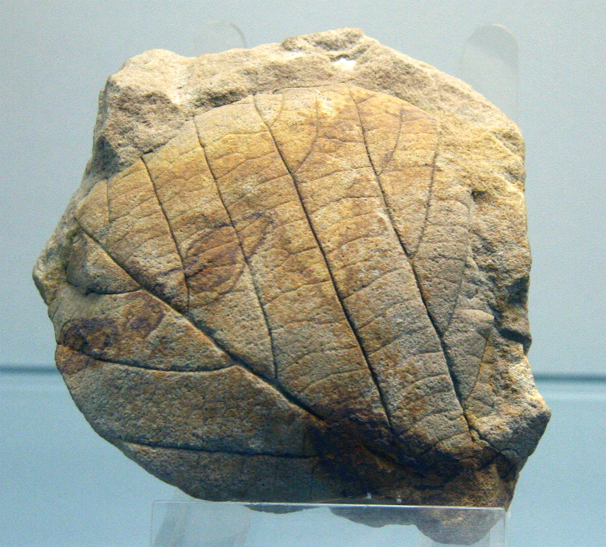 Sample of fine sandstone and/or siltstone of Upper Cretaceous age from the Blankenburg/Harz area (Subhercynian Cretaceous Basin, Central Germany) with impression of Credneria triacuminata, a leaf of plane-like trees, on display at the Dresden Botanical Garden, Saxony, Germany.